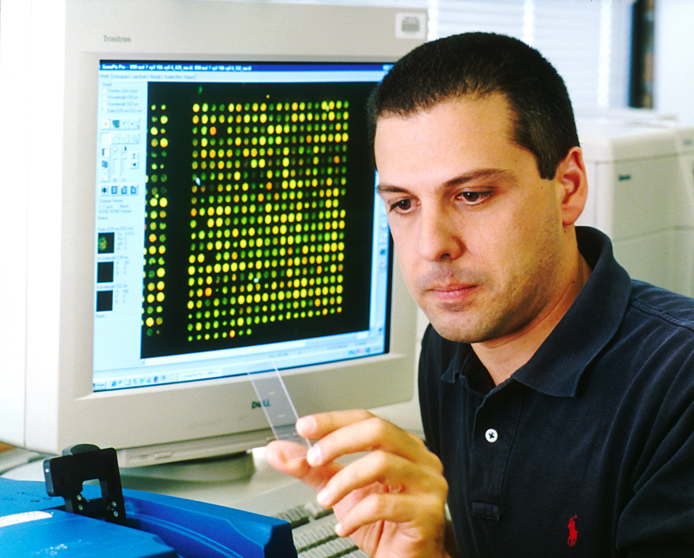 Title Microarray Description An adult caucasian male laboratory technician sitting at computer that displays a microarray. DNA microarray technology is a powerful new research tool that allows scientists to assess the level of expression of a large subset of the 100,000 human genes in a cell or tissue. This technology can quickly produce a snapshot of the genes that are active in a tumor cell, critical information in narrowing the precise molecular causes of a cancer. Topics/Categories People -- Health Professional Science and Technology -- Laboratory Techniques/Equipment Type Color, Photo Source National Cancer Institute